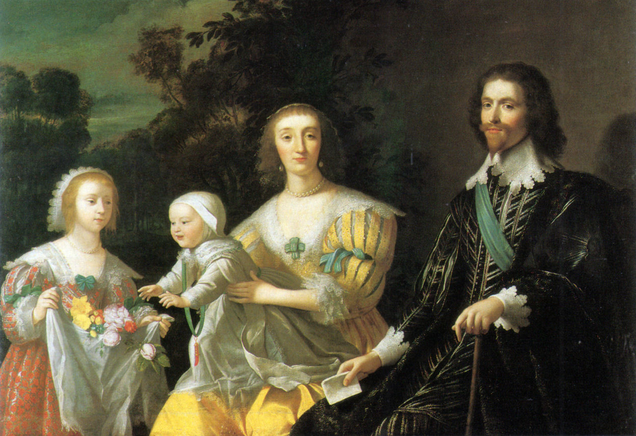 George Villiers, 1st Duke of Buckingham, his wife Katherine Manners, later Baroness de Roos, their daughter Mary (later Duchess of Richmond), and son George (later 2nd Duke of Buckingham}, Montacute House